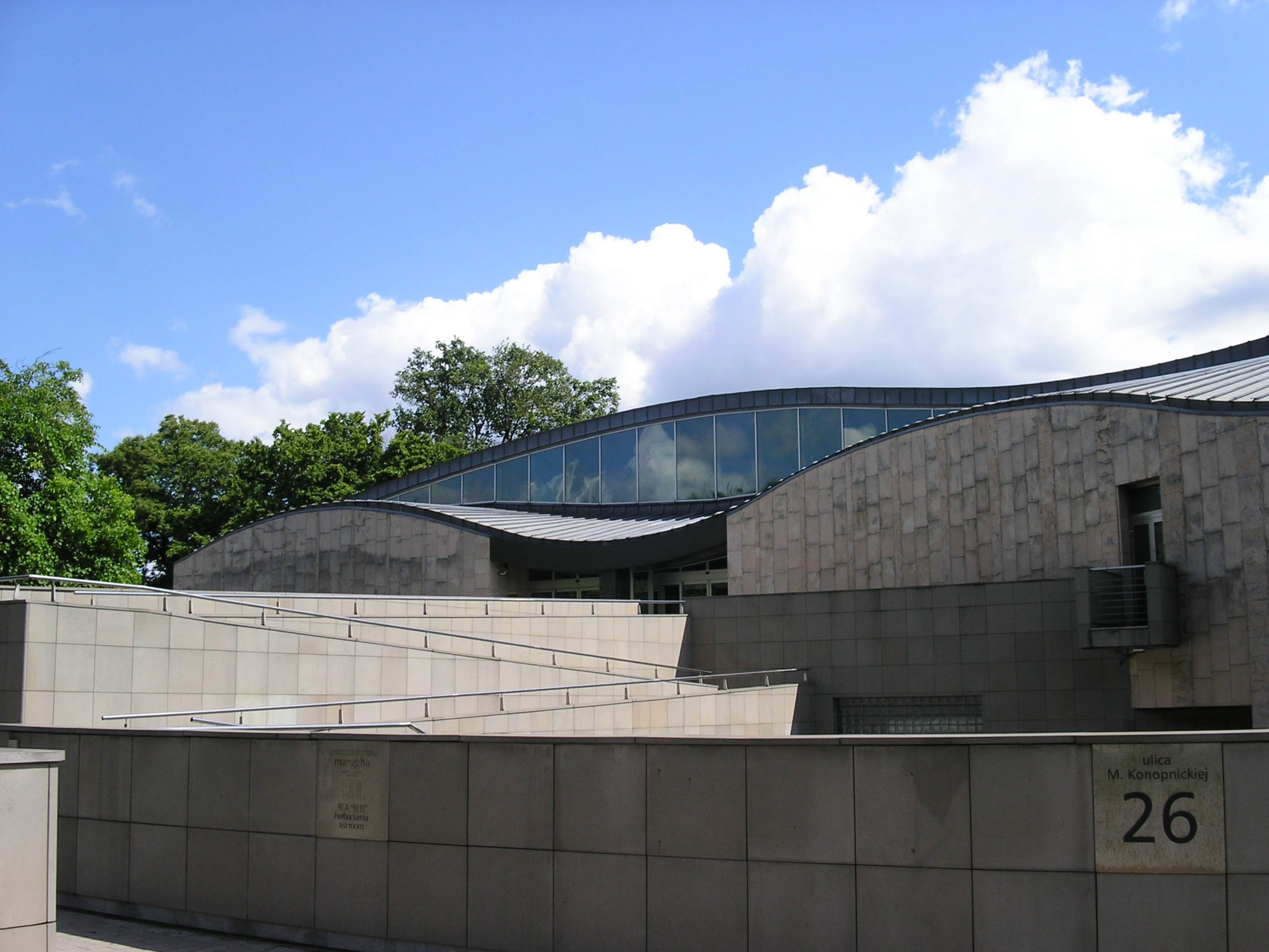 Centre of Japanese Art and Technology, Cracow (main entrance)